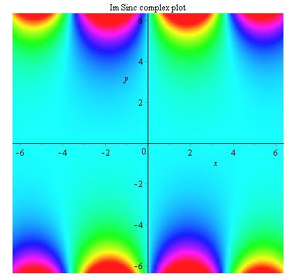 Im Sinc complex plot